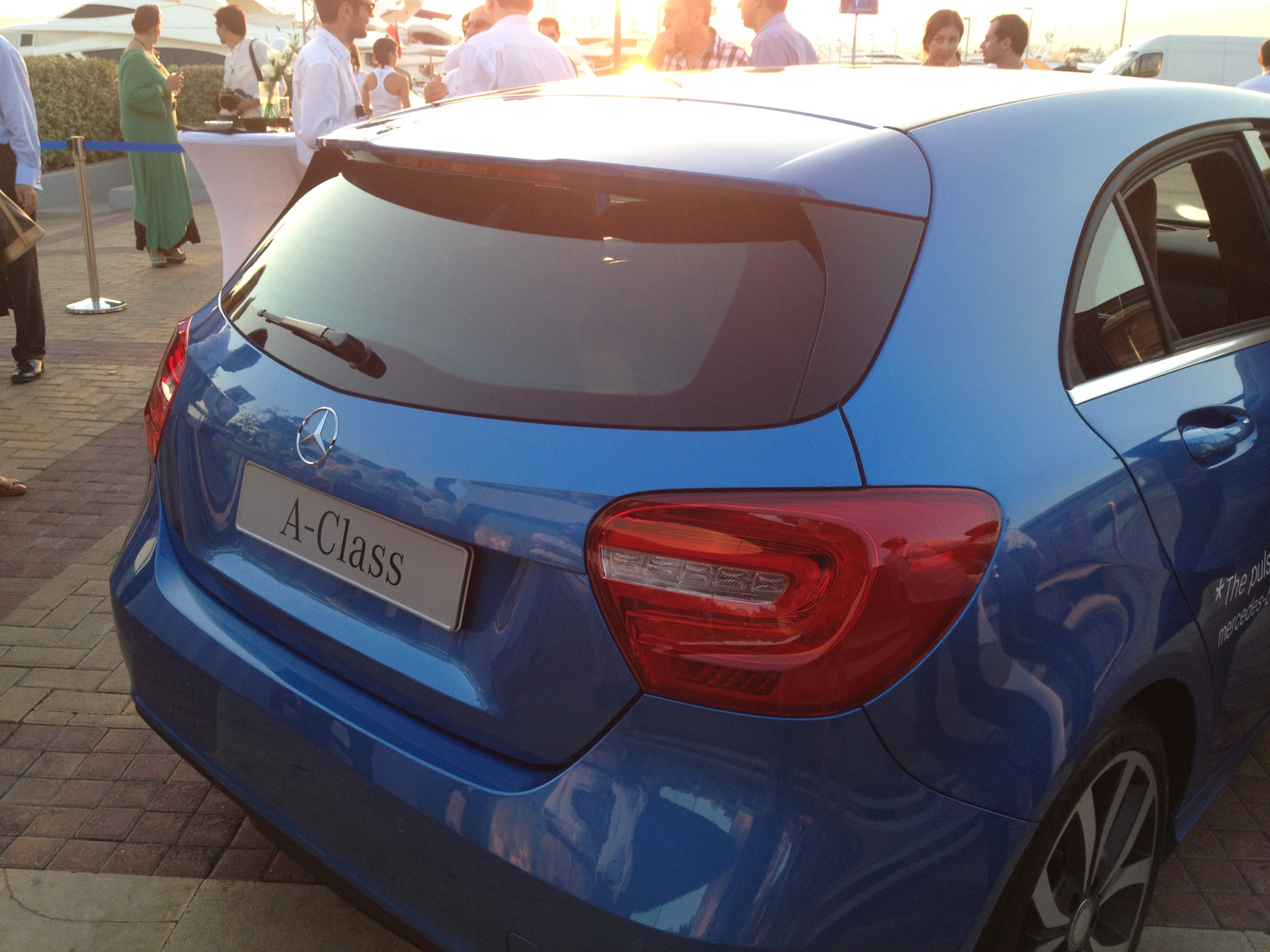 Mercedes A-Class 2012.